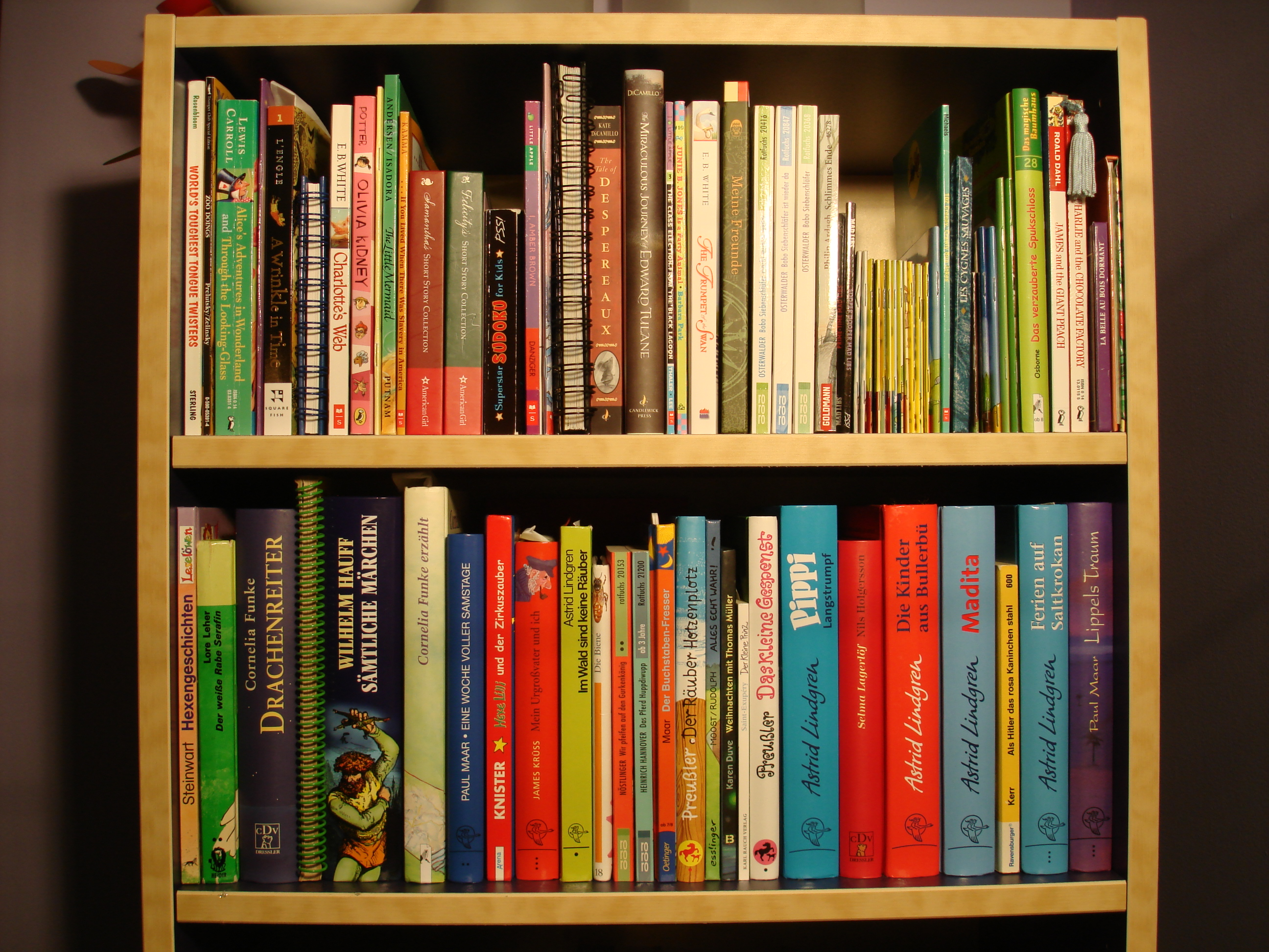 Kids bookshelf with German and American childrens books